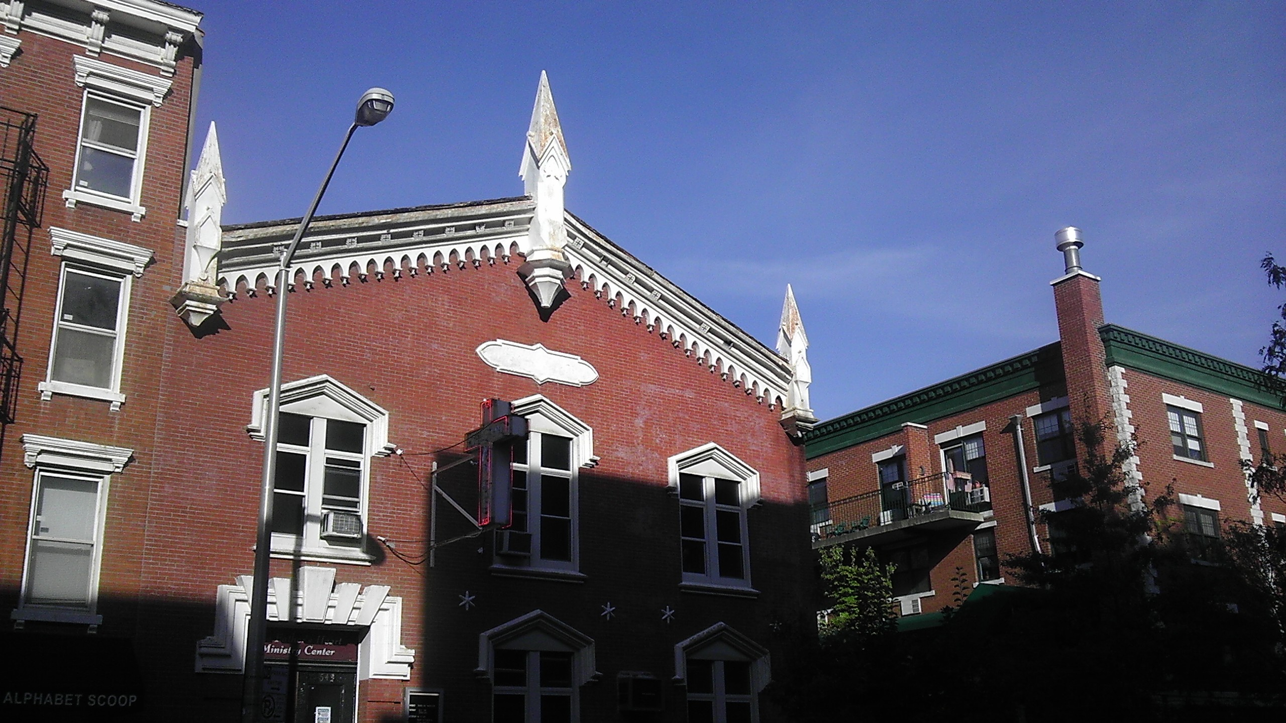 Looking northeast at Eleventh Street Methodist Episcopal Church. See also File:Father's Heart Ministry Center.jpg.